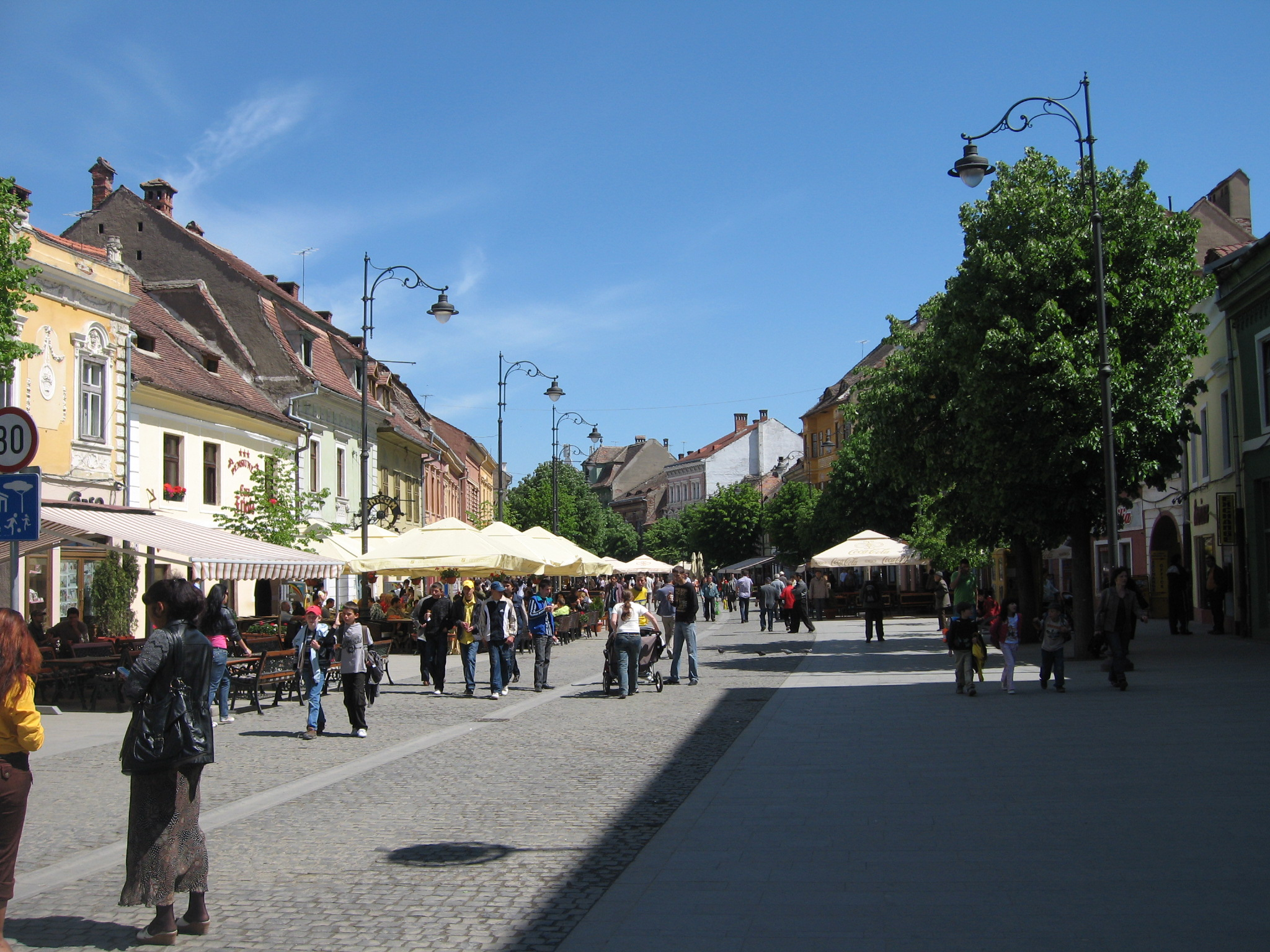 Street in Sibiu